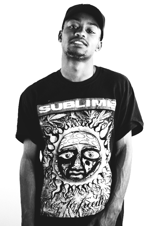 Rob Stone Press image 2016.